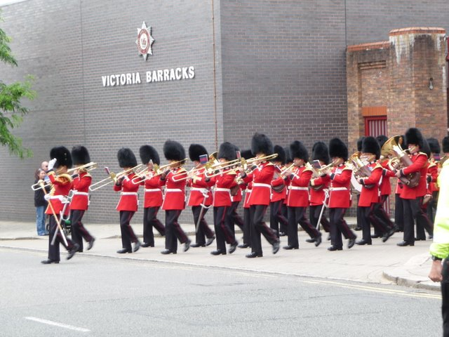 Band of The Scots Guards leaves Victoria Barracks Windsor is probably the only English town where regular troops march through the streets at least every other day.